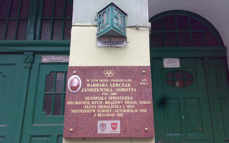 Birth-house of Barbara Sobotta in Poznań